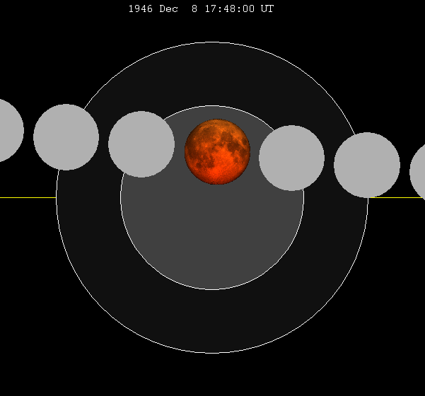 Lunar eclipse chart